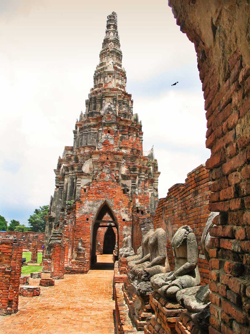 Wat Chai Wattanaram, Ayutthaya, Thailand.